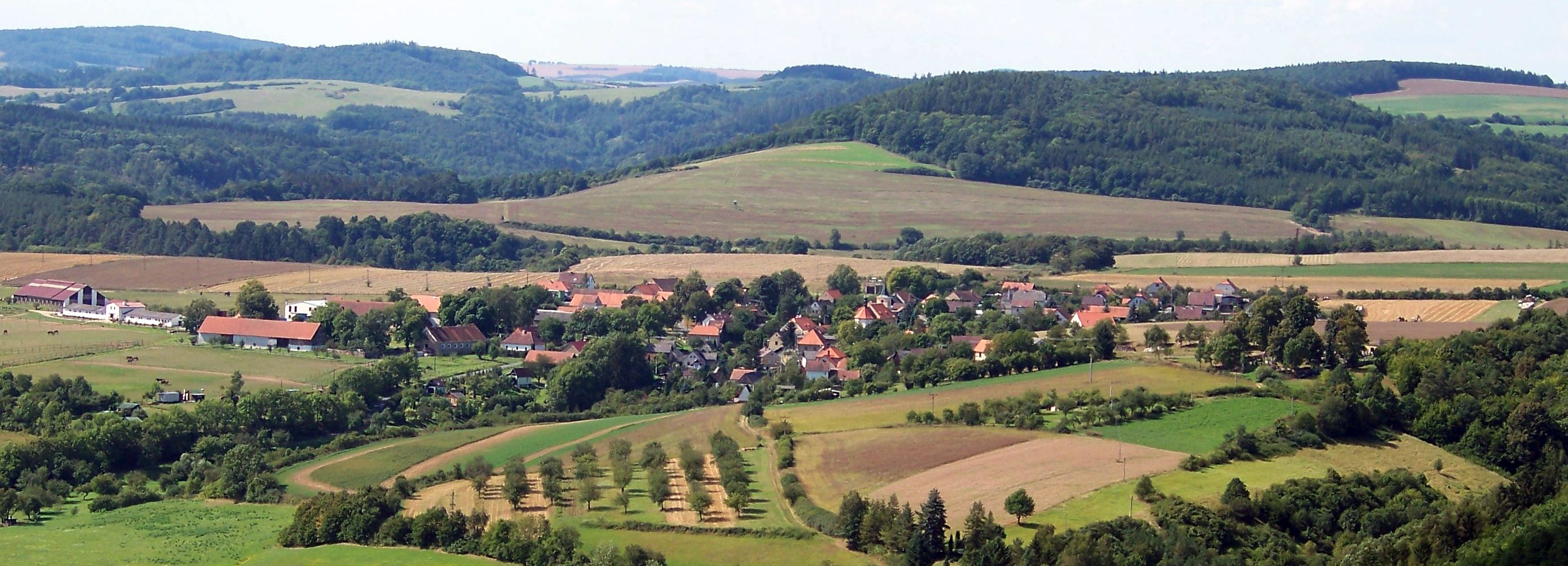 Nezabudice, Rakovník District, Central Bohemian Region, the Czech Republic. Views from Nezabudice Rocks.